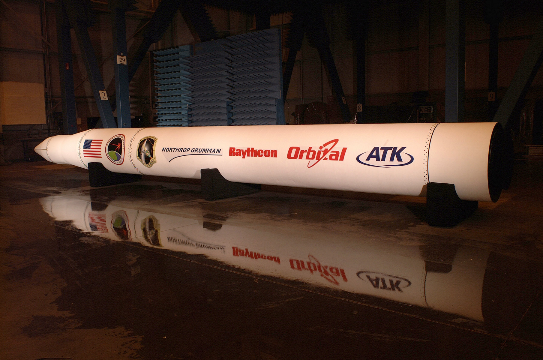 Mock-up of KEI Interceptor